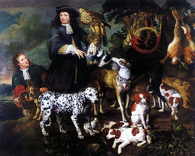 Jan Fyt - The Hunting Party (1640s)